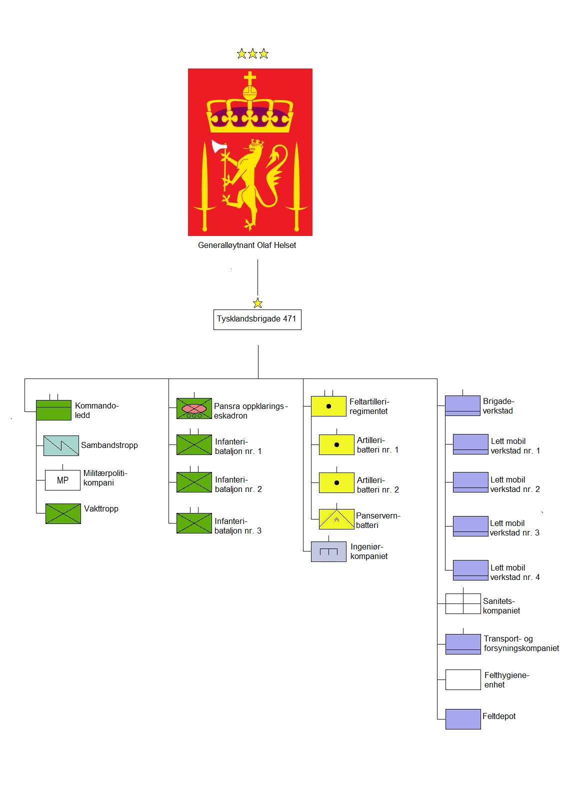 Overview of the organization of brigade 471, 1947, Army of Norway This brigade operated in Germany. Own work. The data is taken from this source]